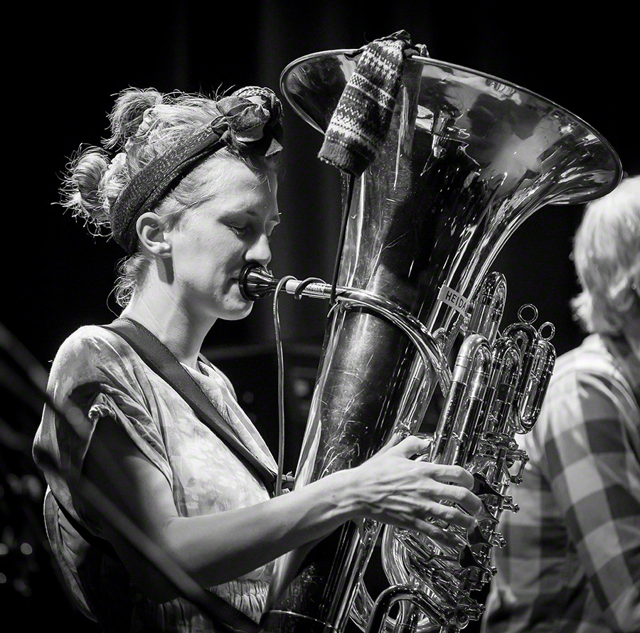 Heida Karine Johannesdottir performs with Ferdigsnakka: Broen og Moskus at the stage of Nasjonal Jazzscene Victoria. The concert was part of the Oslo Jazz Festival in Norway and took place on 15. August 2016. Lineup:Anja Lauvdal (keyboard)Fredrik Luhr Dietrichson (double bass)Hans Hulbækmo (drums)Heida Karine Johannesdottir (tuba)Lars Ove Fossheim (guitar)Lars Saabye Christensen (spoken words)Kjartan Fløgstad (spoken words)Vigdis Hjorth (spoken words)Geir Gulliksen (spoken words)Ingvild Schade (spoken words)